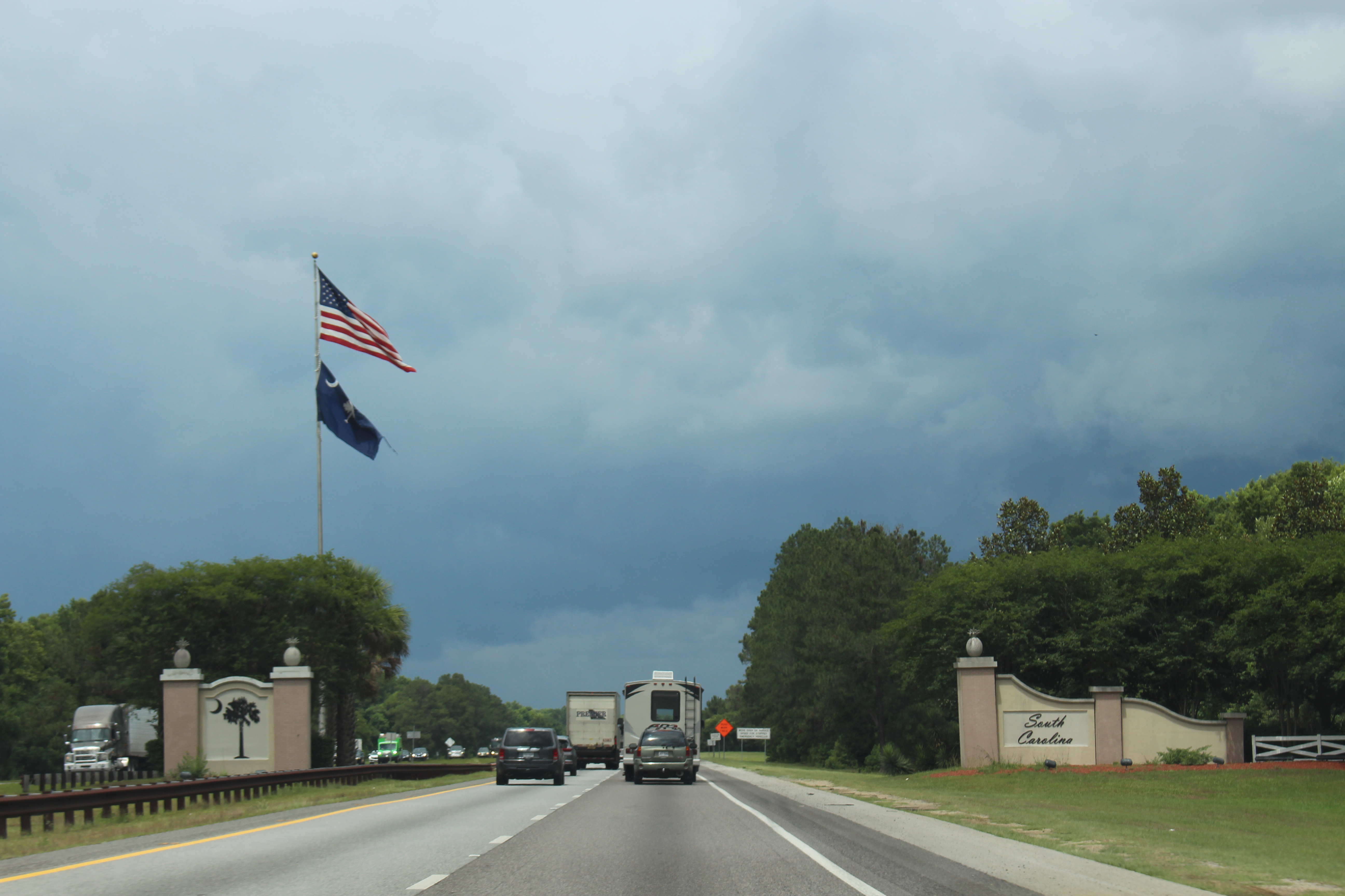 Interstate 95 NB, Jasper County, South Carolina